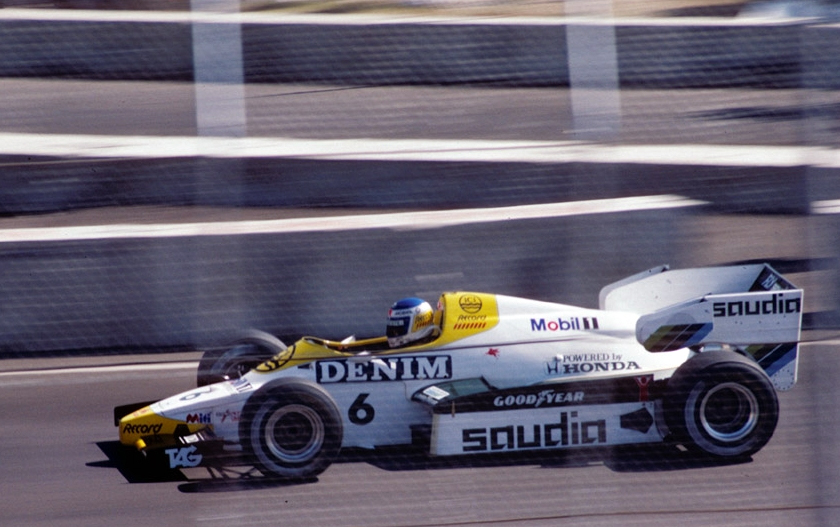 Keke Rosberg, #6 Williams-Honda won the USGP here and the 9 Championship points that it paid.